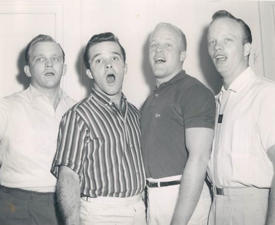 press photo of The Crosby Boys in 1959